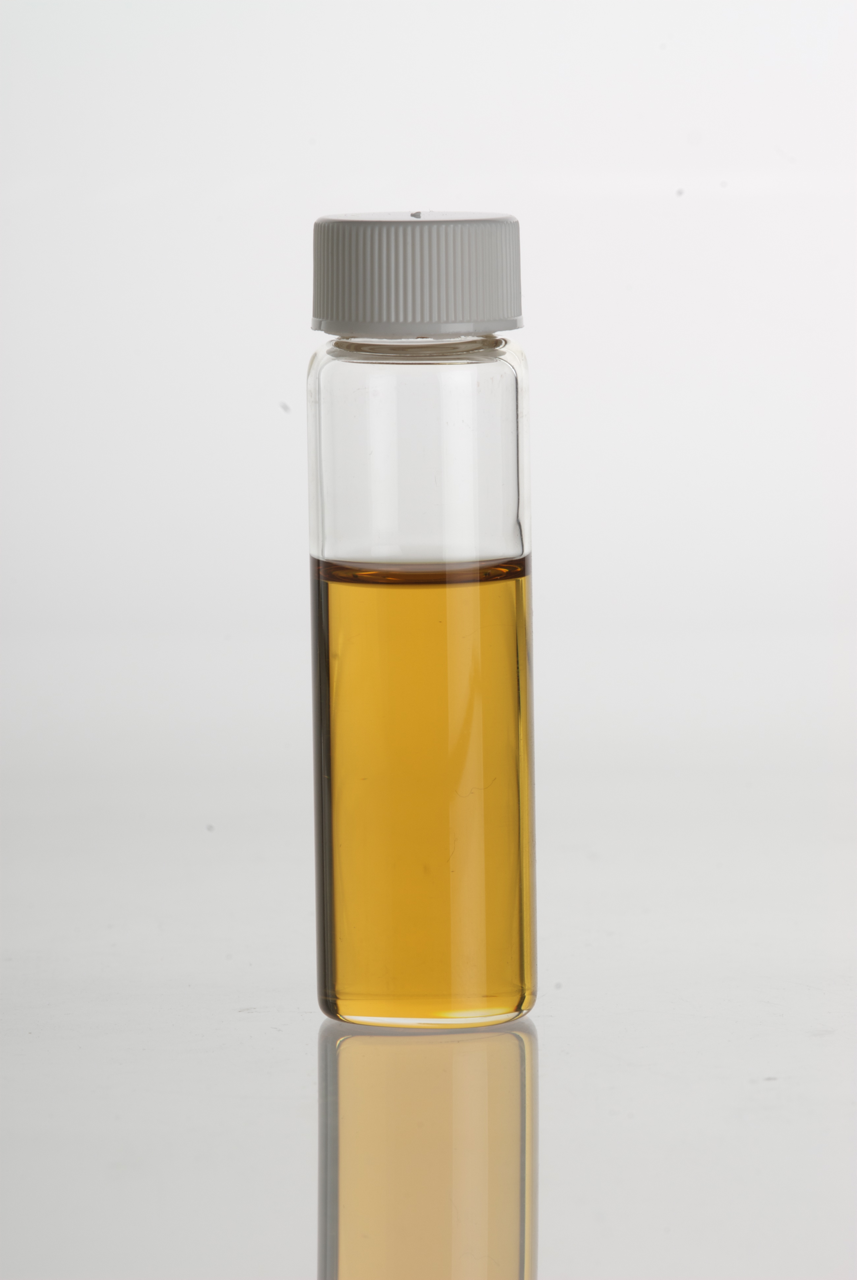 Oregano (Origanum compactum) Essential Oil in clear glass vial